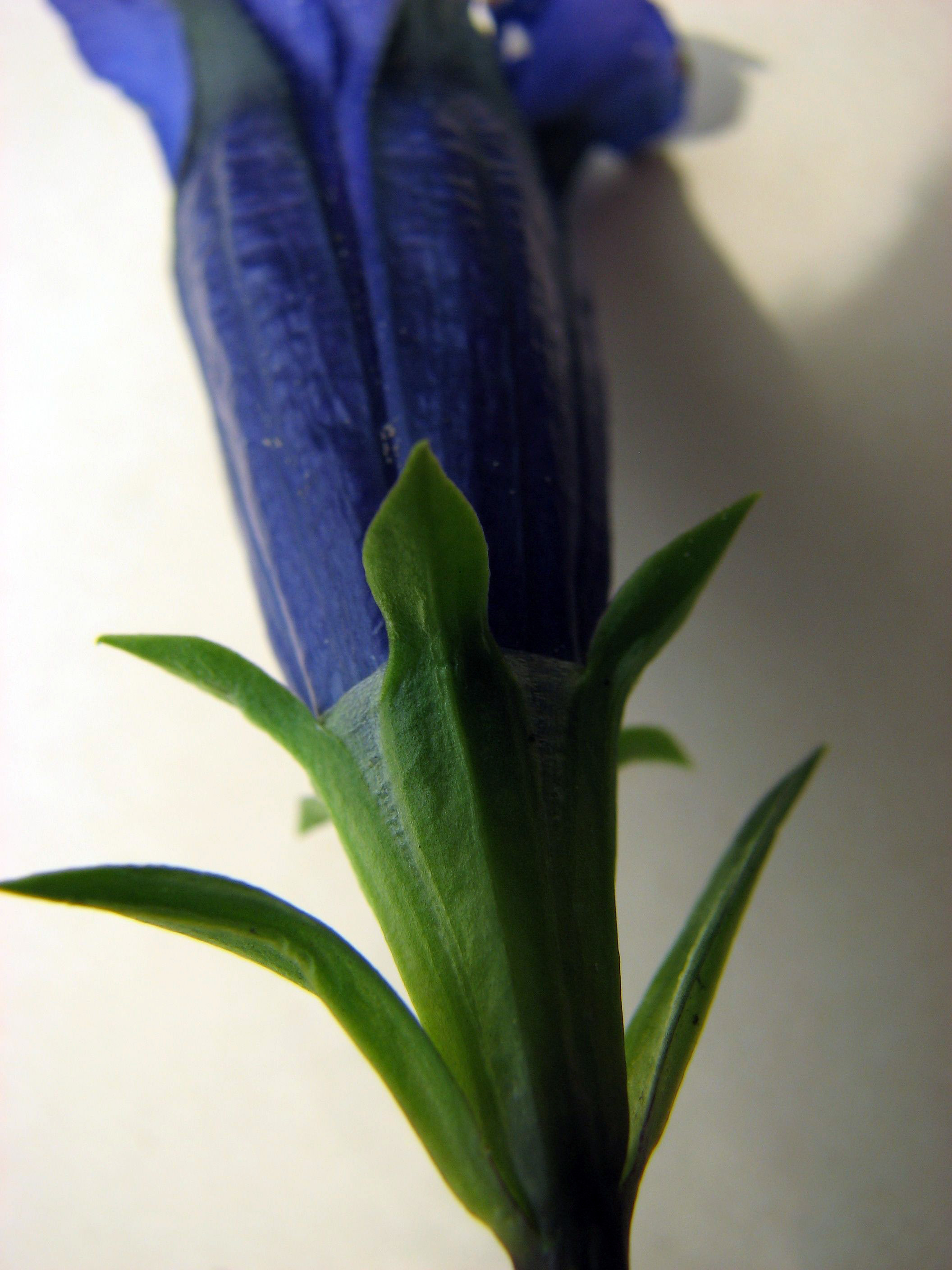 Calyx of Gentiana acaulis